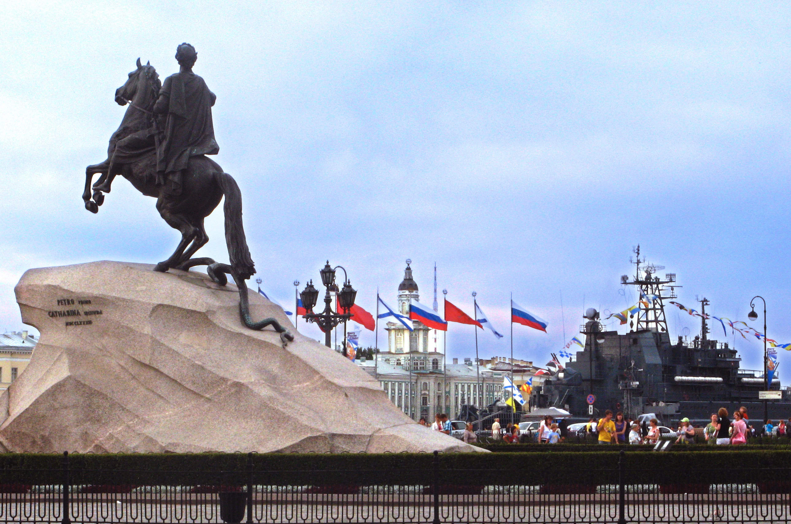 Day of Navy (The Bronze Horseman, Kunstkamera and warship), Saint-Petersburg, Russia.